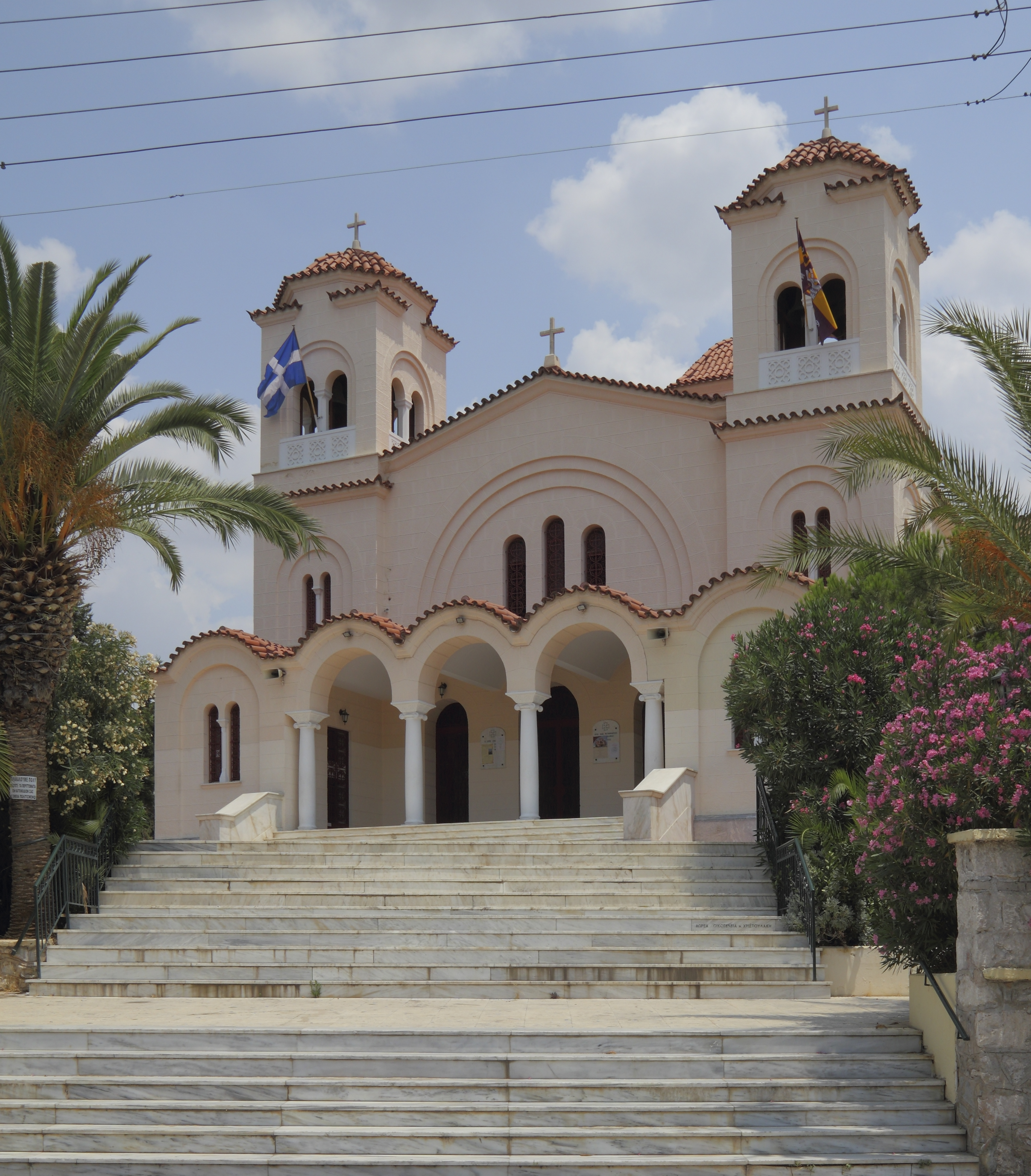 Church Metamorphosi Sotiros (Μεταμόρφωση Σωτήρος) in Kallithea (Attica, Greece)